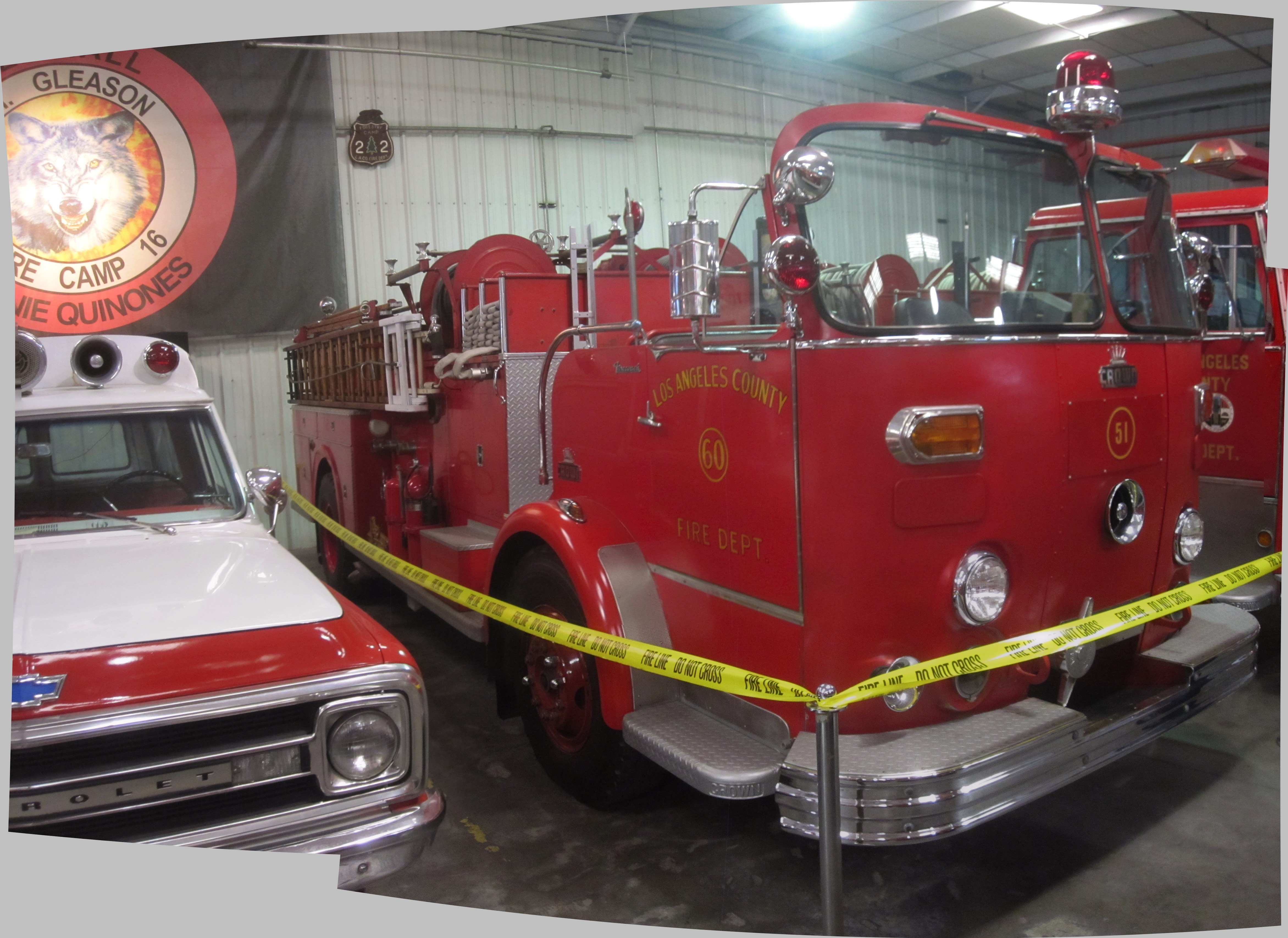 Here's a composite panorama of the museum's Crown.